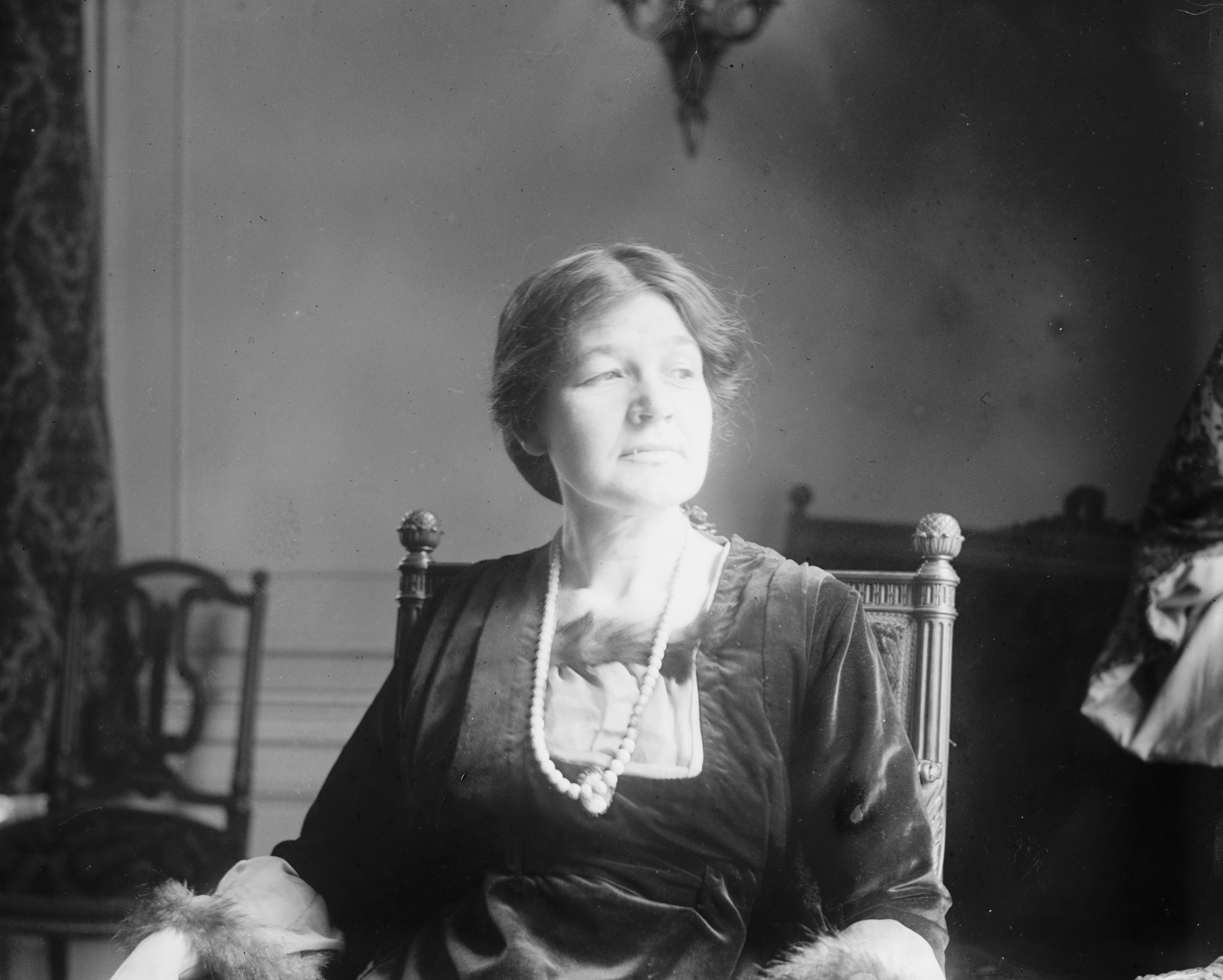 Title: Aurelia H. Reinhardt Abstract/medium: 1 negative : glass ; 4 x 5 in. or smaller